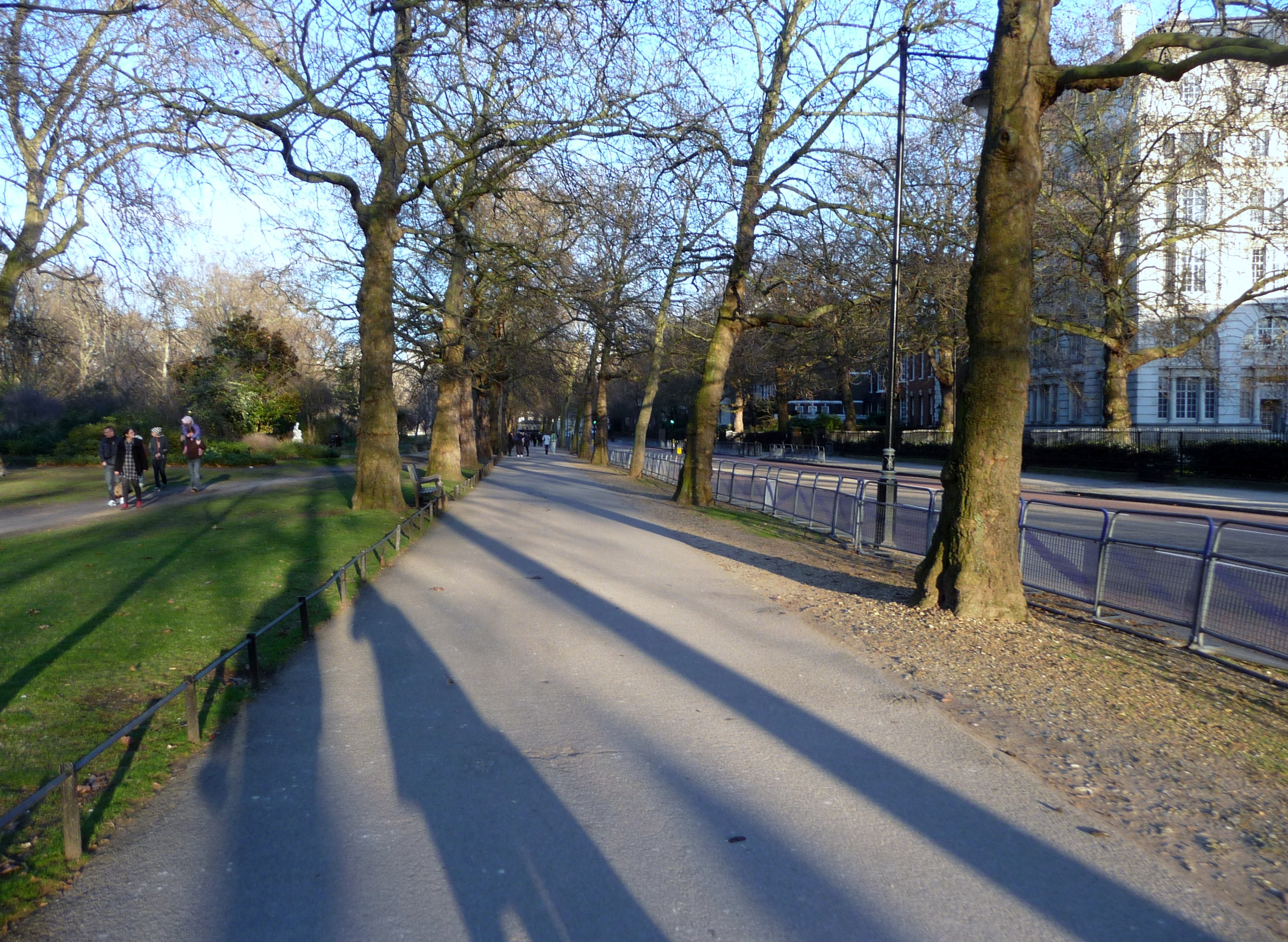 London : Westminster - Birdcage Walk Birdcage Walk is alongside St James' Park in the City of Westminster.